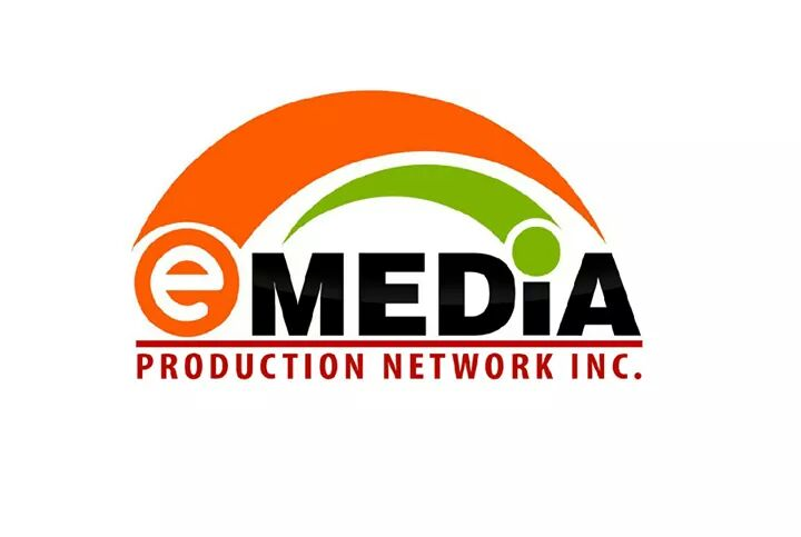 Official logo of EMedia Productions